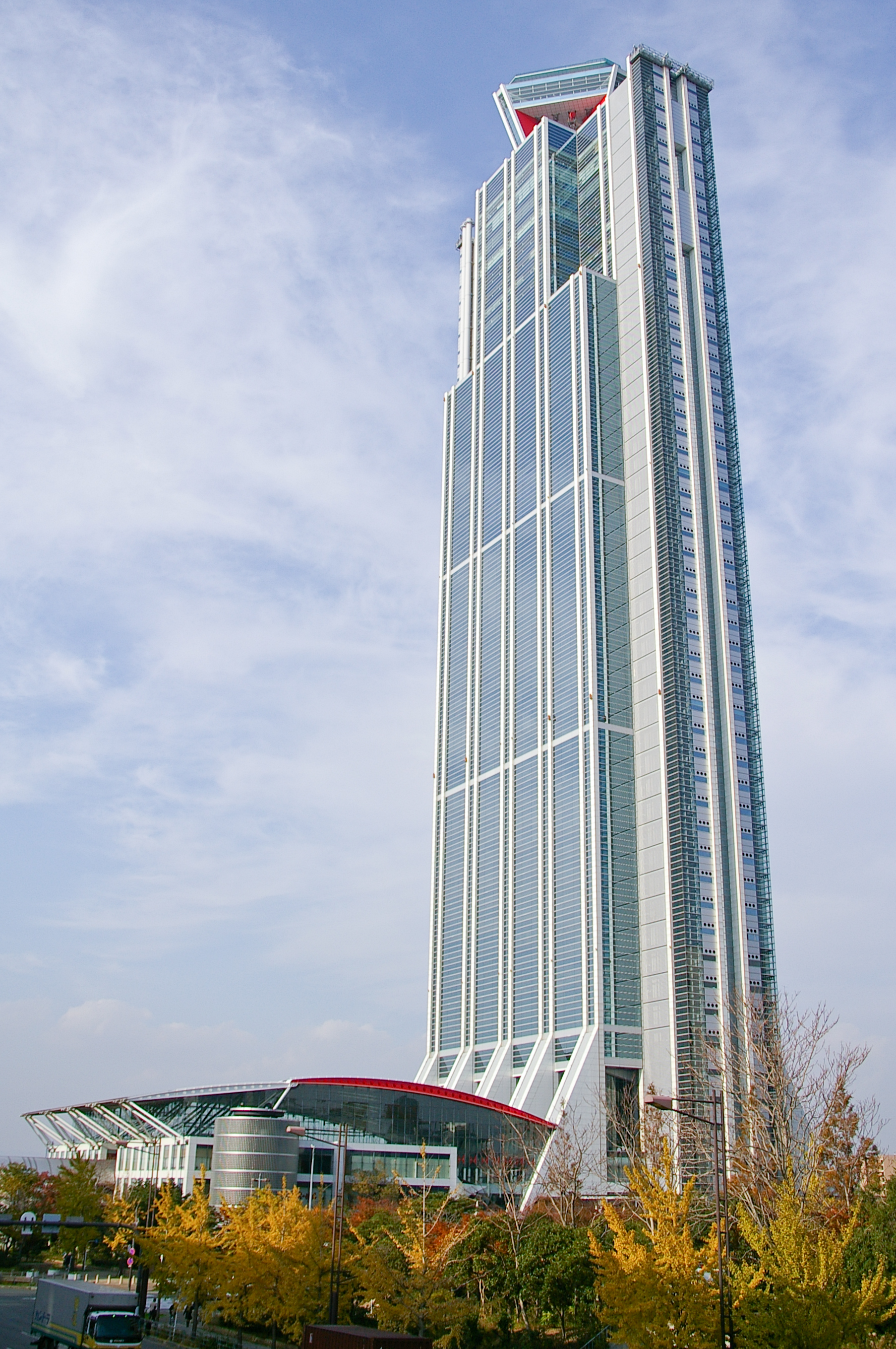 Photograph of Osaka World Trade Center Building, aka WTC Cosmo Tower, in Suminoe-ku, Osaka, Osaka Prefecture, Japan.